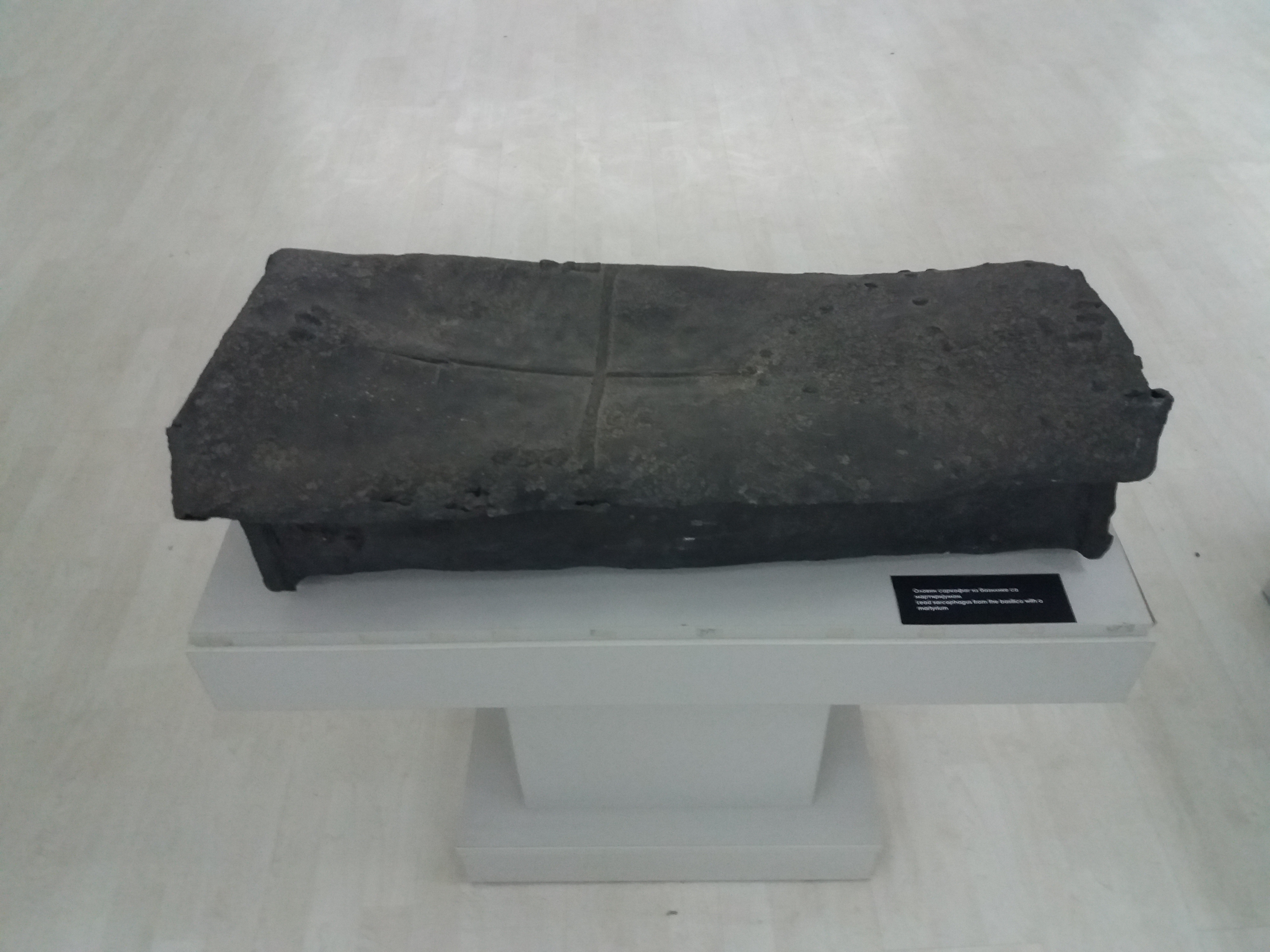 A child’s lead sarcophagus with relief images, today, Narodni muzej Niš